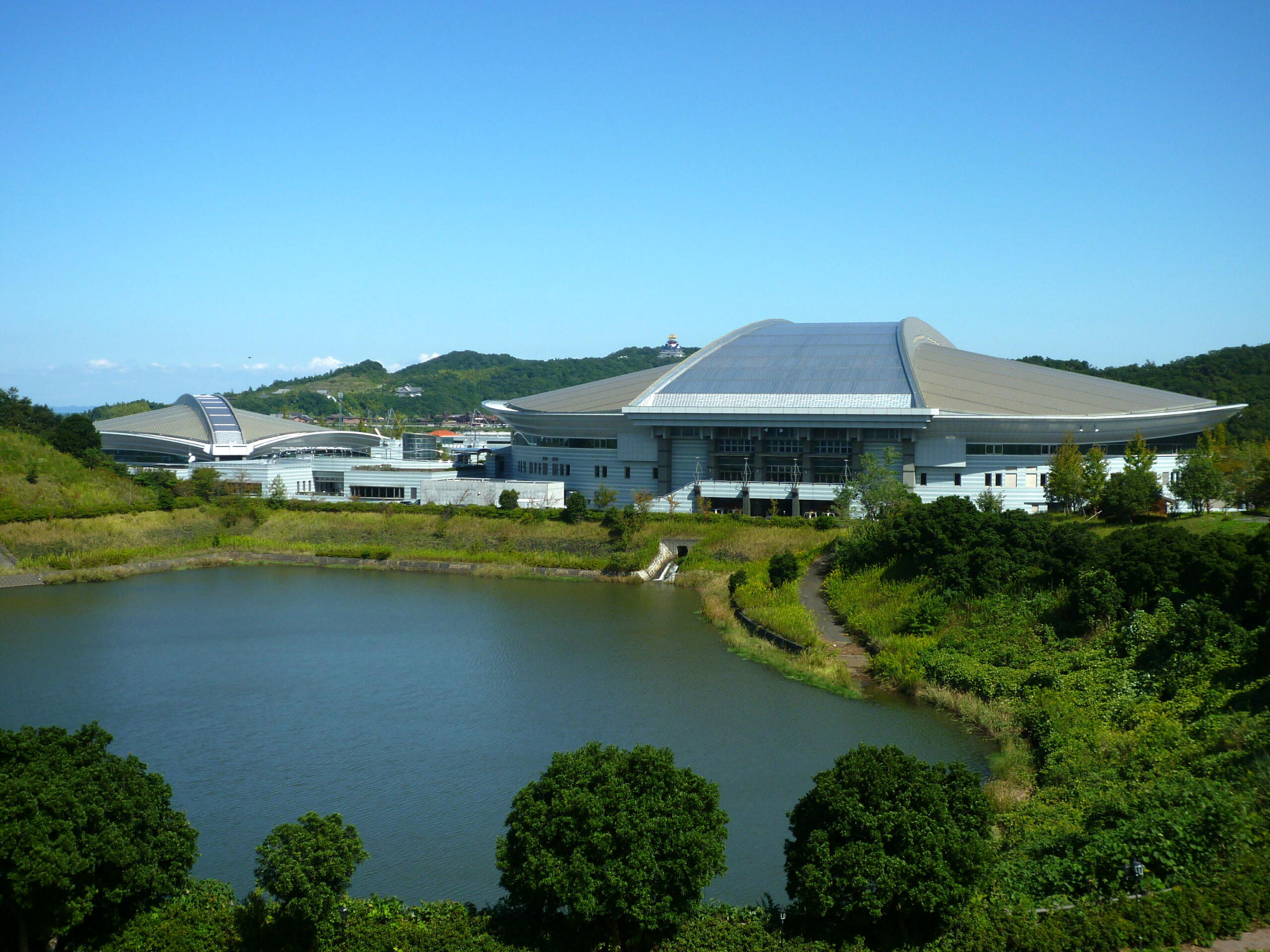 The "Sun Arena" in Ise, Mie Prefecture, Japan.